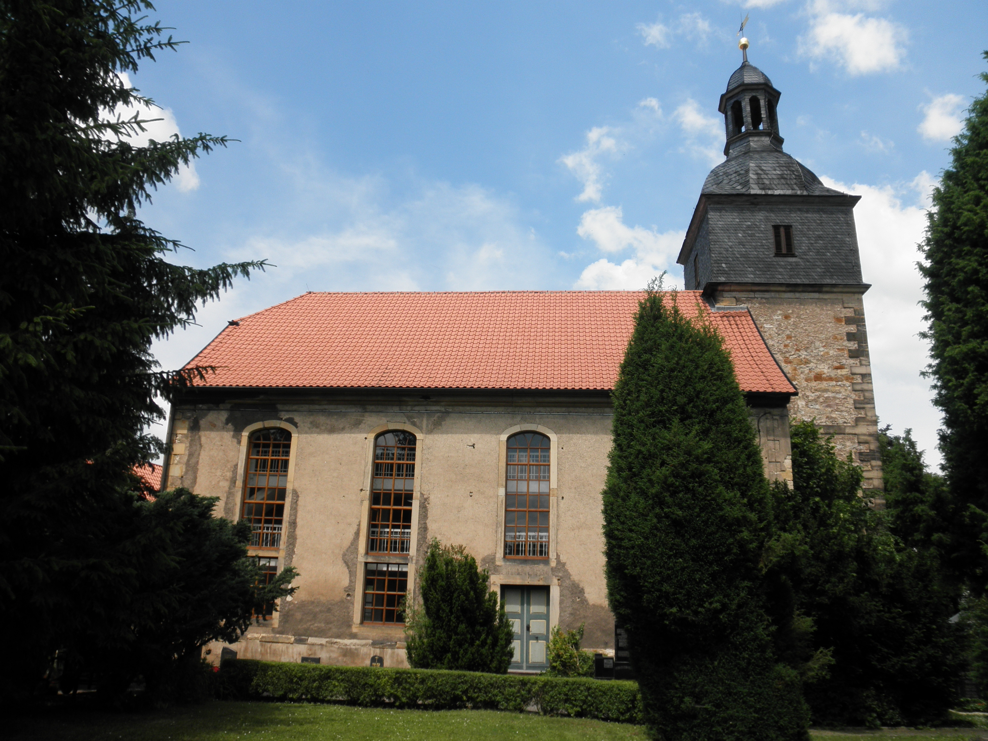 Church in Brüheim (Thuringia)